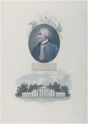 Sir John Hill (c1716-1775)